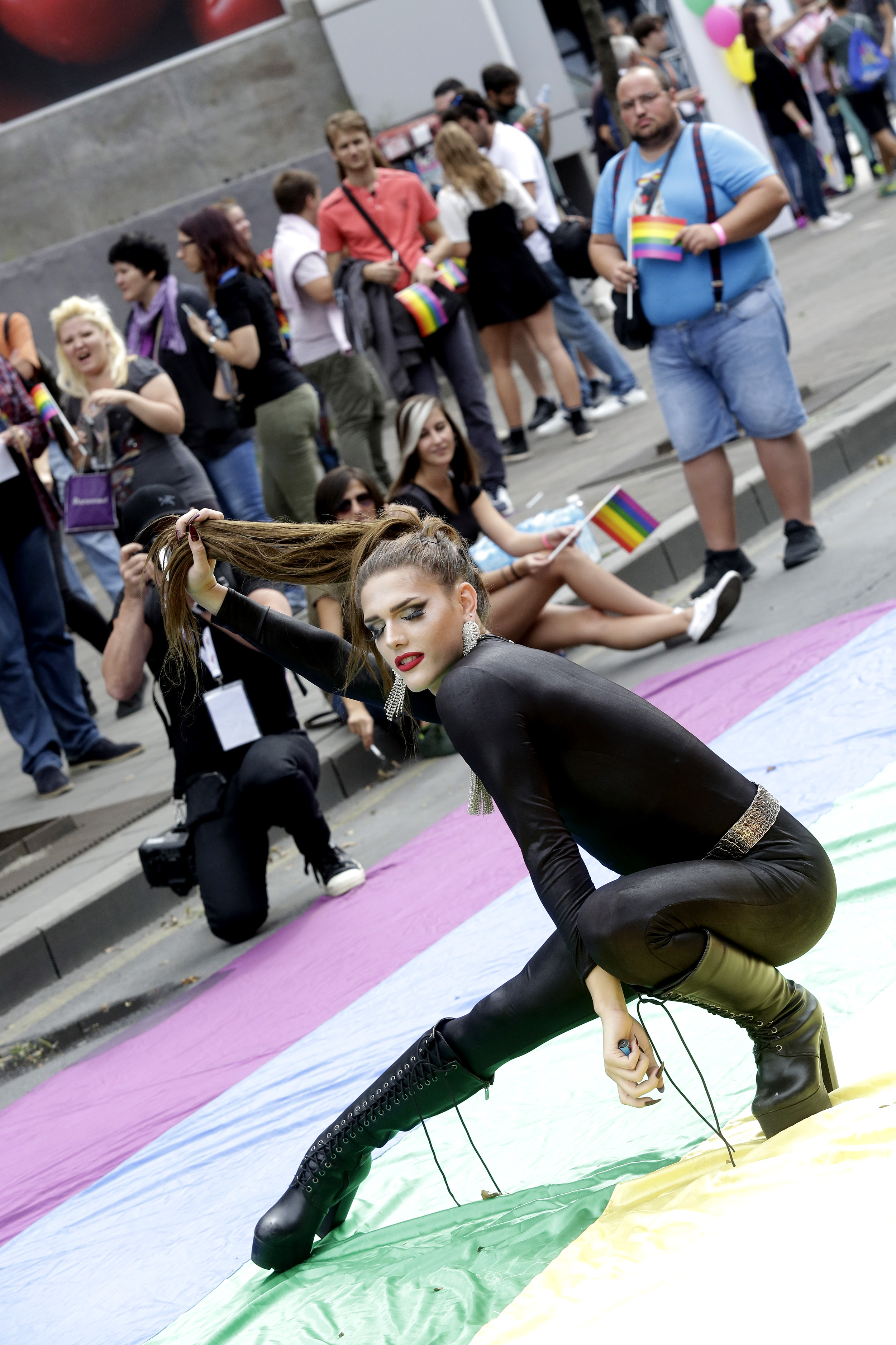 Alex Elektra, the queen of Belgrade Pride 2017